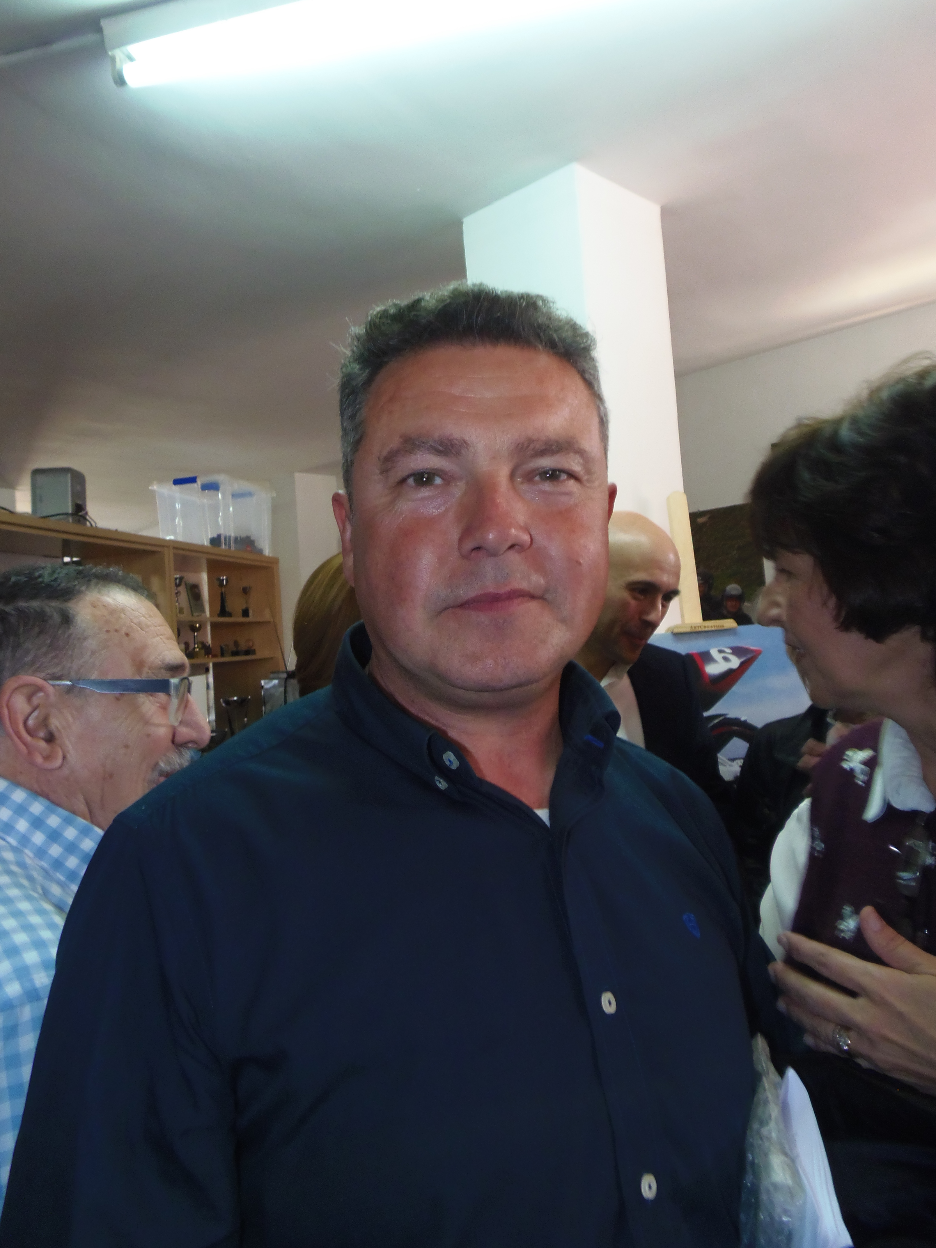 Julián Miralles at the Museu Isern de la Moto in Mollet del Vallès, during the Homage to Paco Tombas